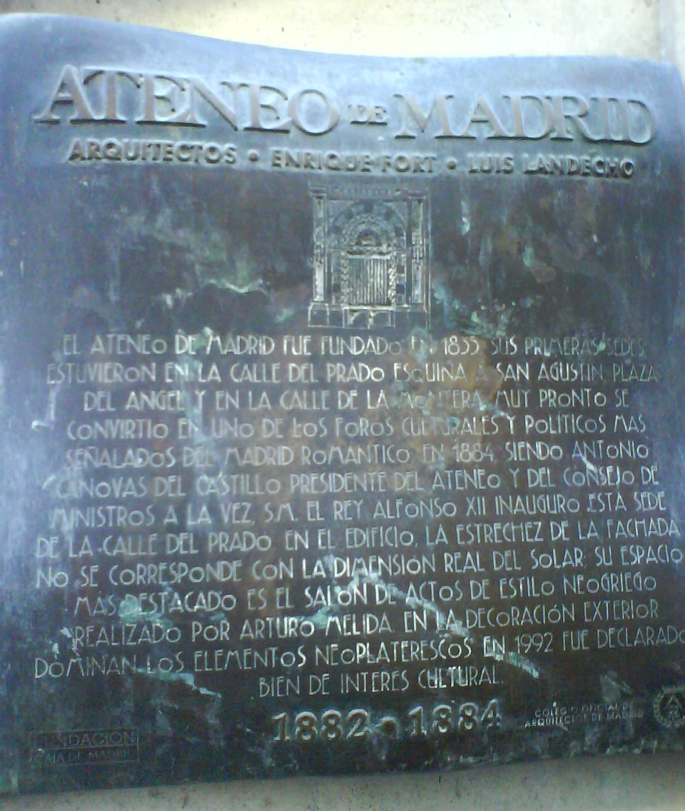 Explanatory plate near to the entry of the Ateneo de Madrid